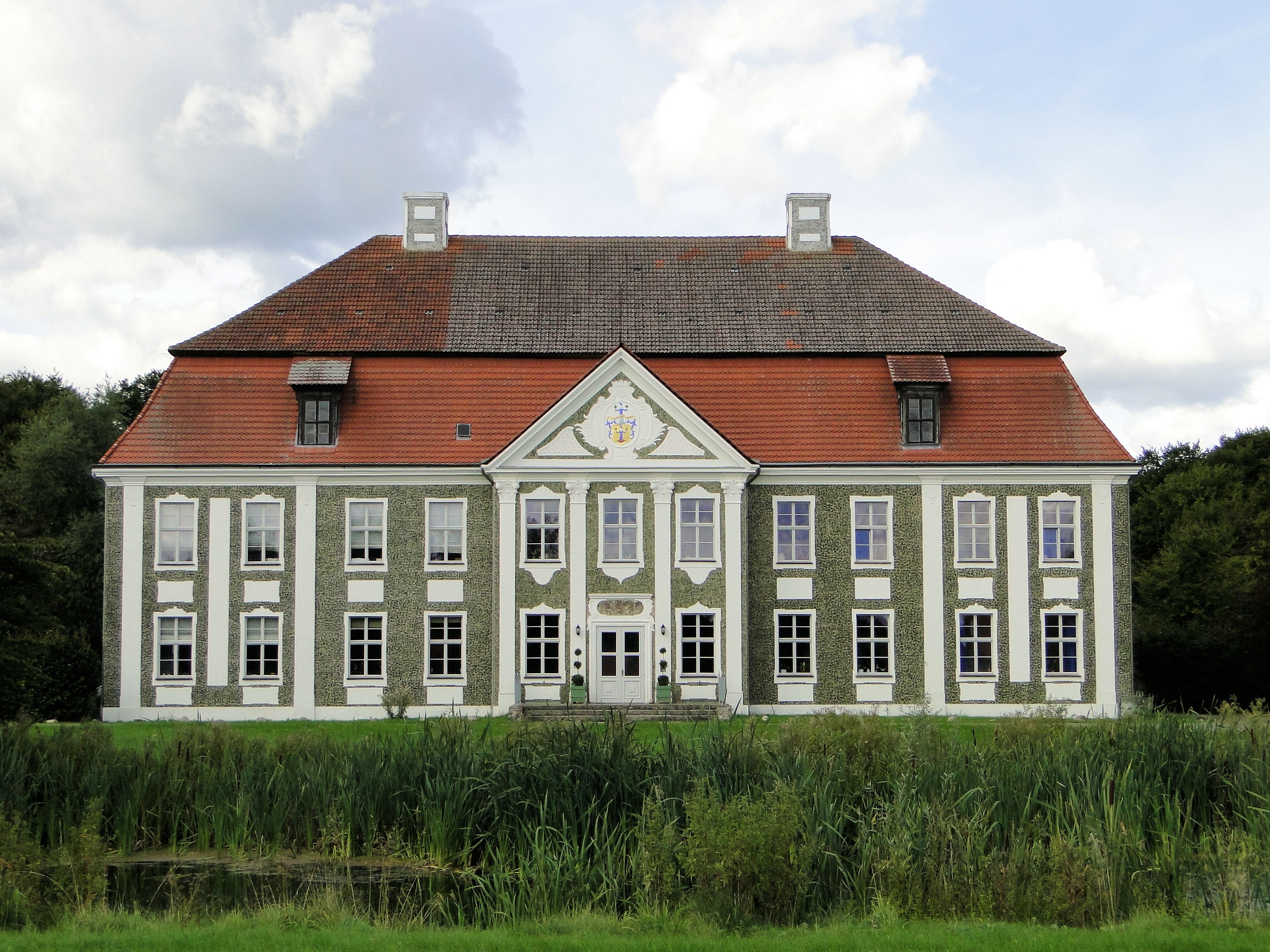 Manor house in Rumpshagen, district Mecklenburgische Seenplatte, Mecklenburg-Vorpommern, Germany